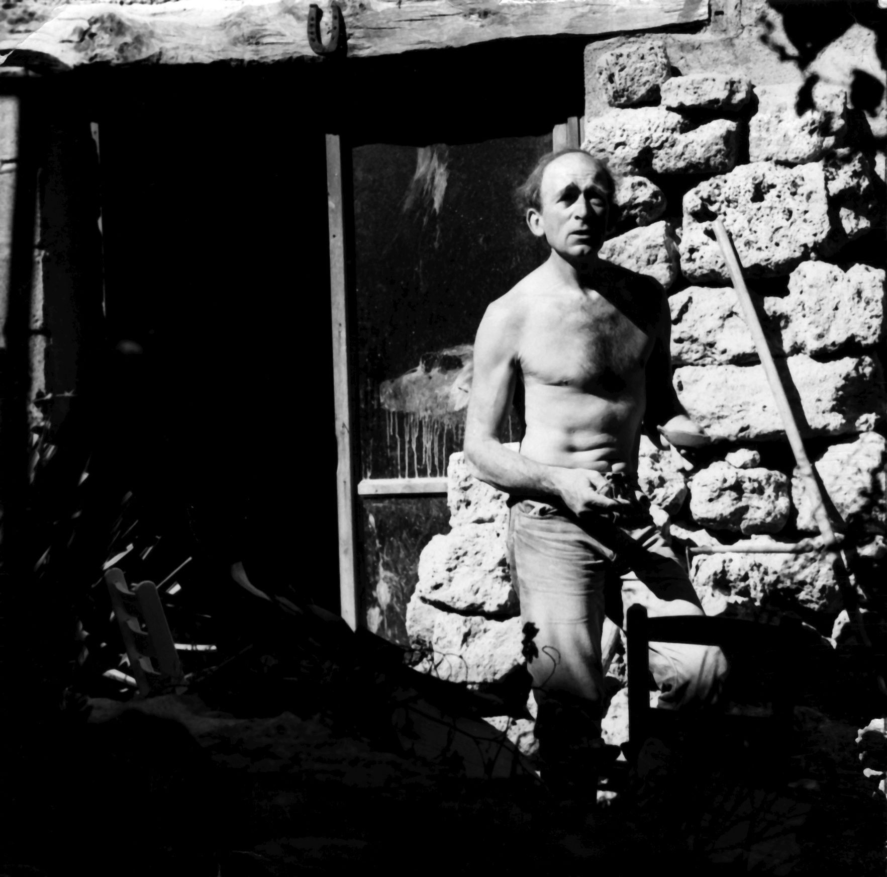 portrait of Olivier Pettit in his house in the south of France (Var)